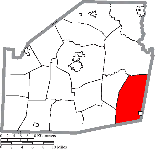 Map of the municipal and township boundaries of Highland County, Ohio, United States, as of the 2000 census, with the location of Brushcreek Township highlighted. Township borders are shown only in unincorporated areas in order to differentiate incorporated and unincorporated areas more clearly.